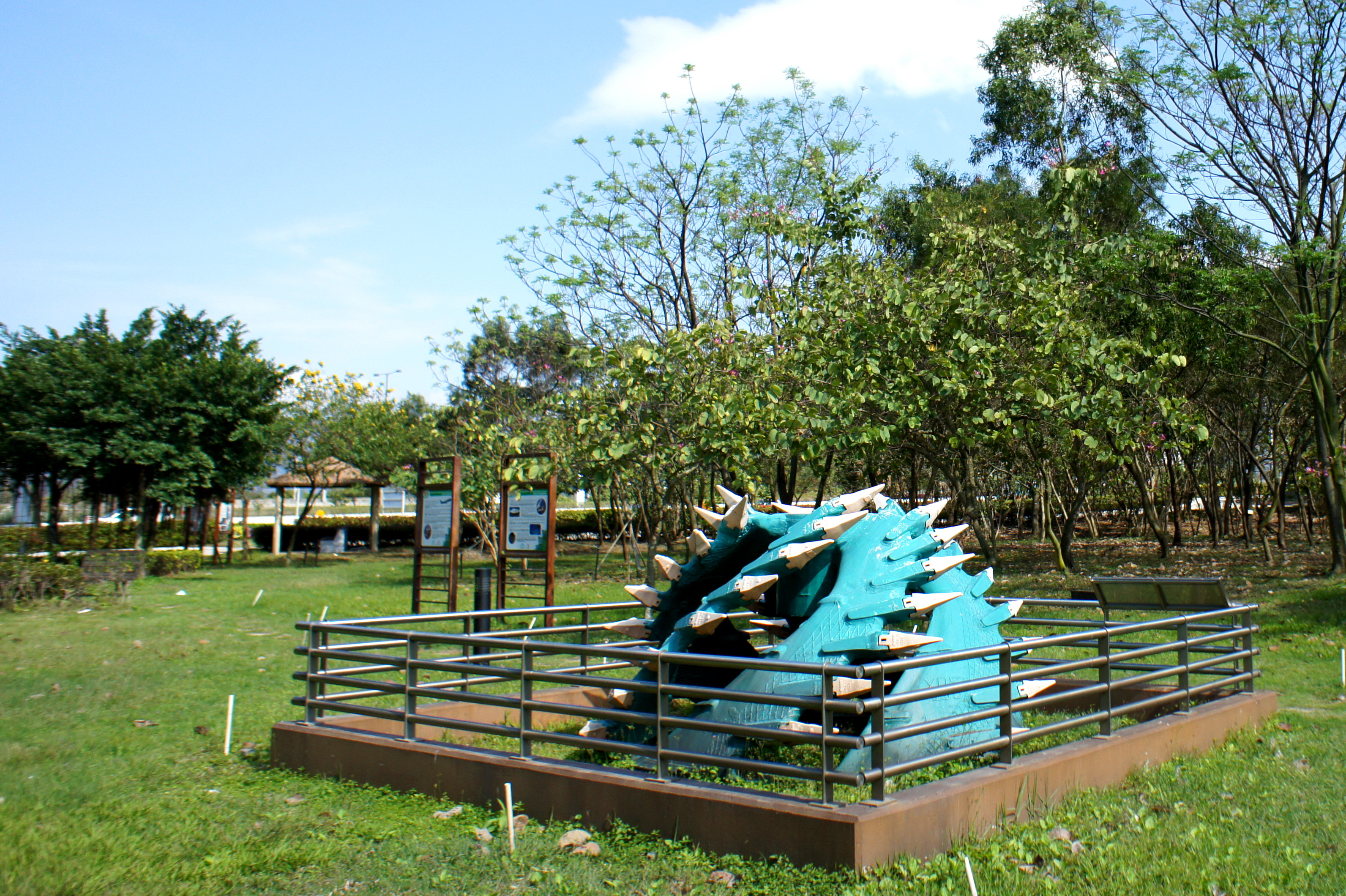 Hong Kong International Airport Historical Garden, Tung Chung, Lantau Island, Hong Kong.